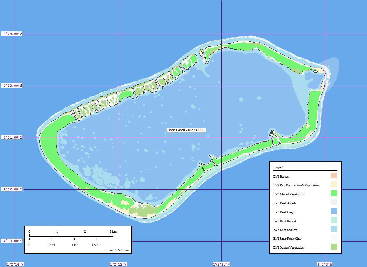 Map of Orona Atoll, Phoenix Islands, Kiribati